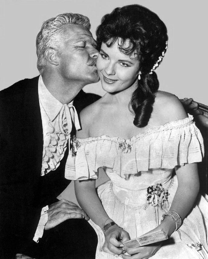 Photo of James Garner playing the role of Pappy Maverick and actress Kaye Elhardt from the television program Maverick.